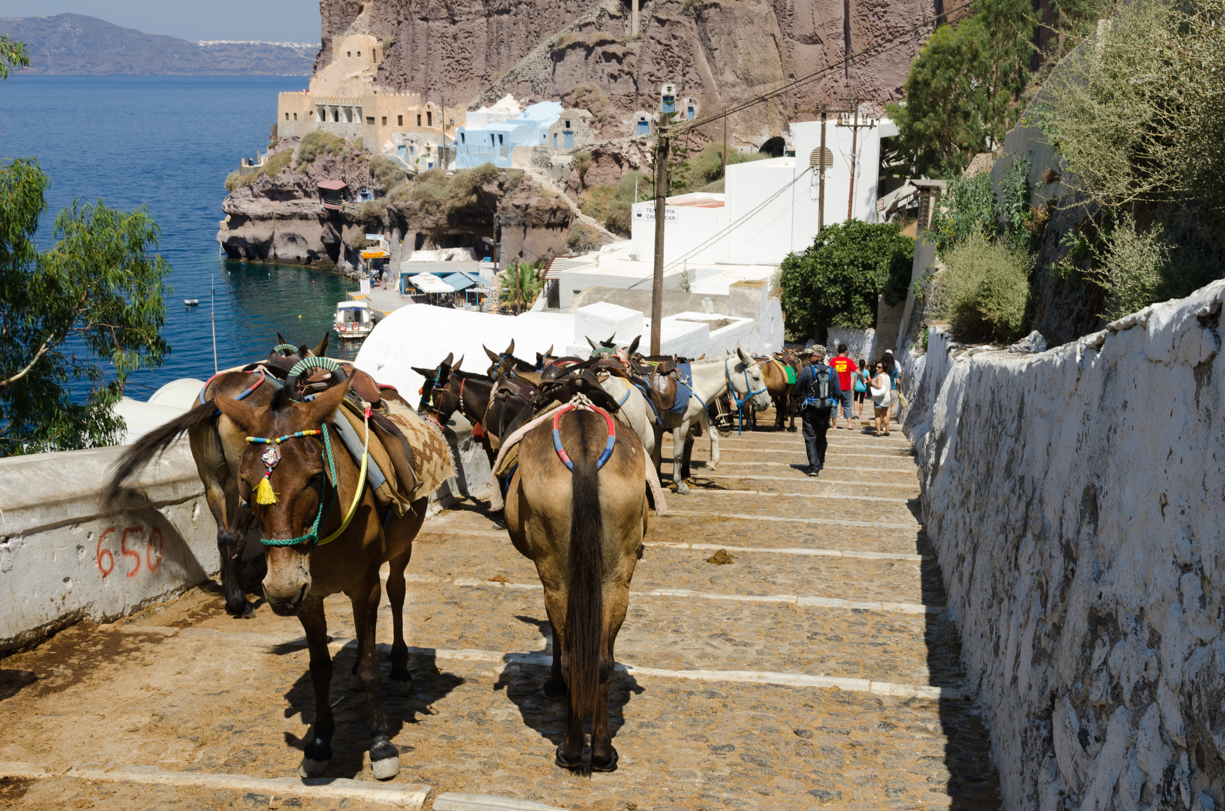 Donkey trail between Fira and Skala port, Santorini, Greece.